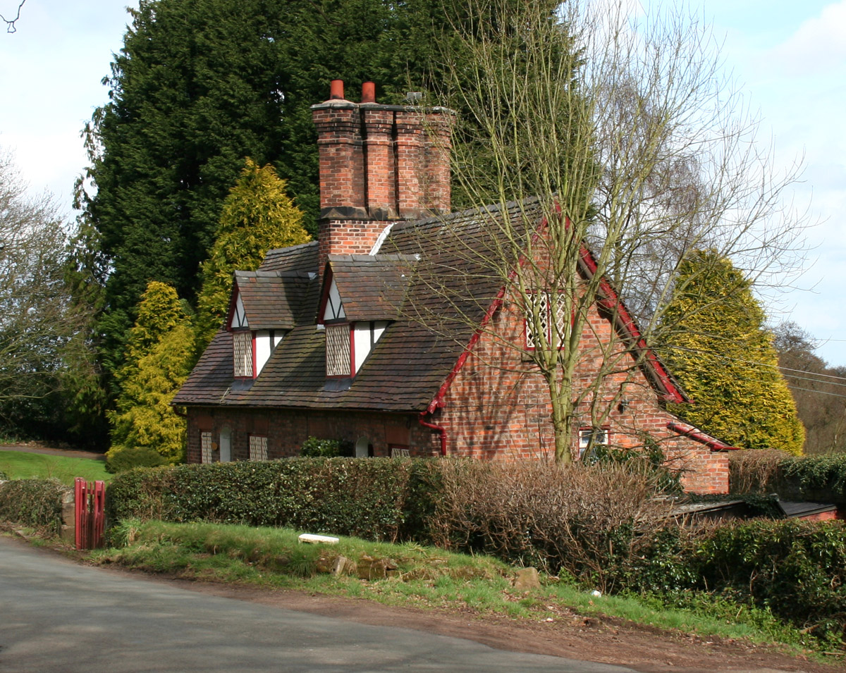 Fountain Cottages, Peckforton, Cheshire